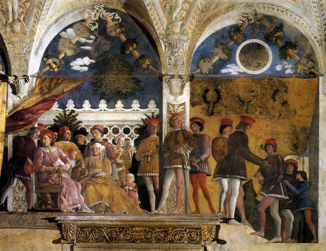 north wall of the Camera degli Sposi in the north east tower of the Castel San Giorgio, Mantua